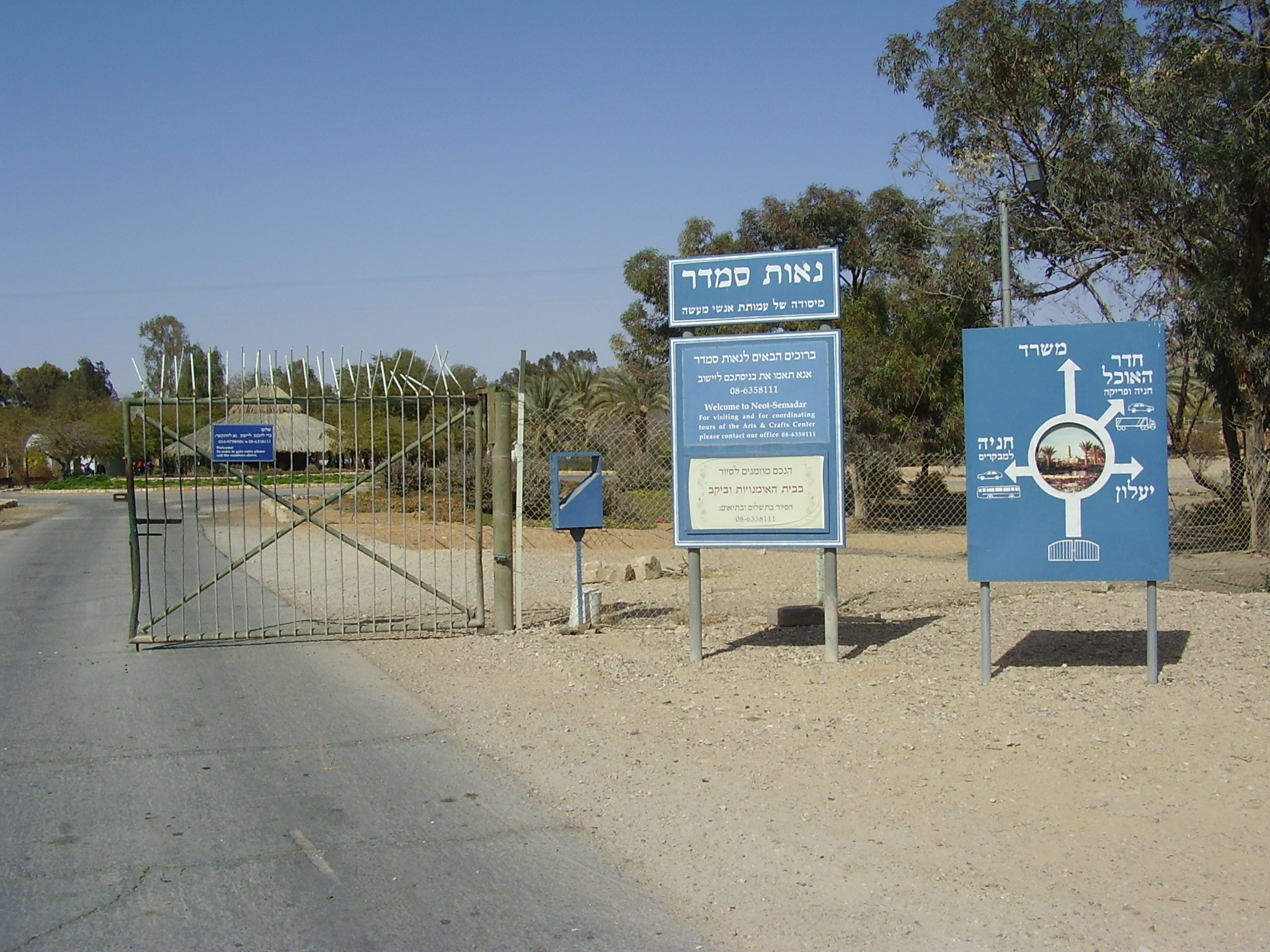 Entrance to Kibbutz Neot Semadar